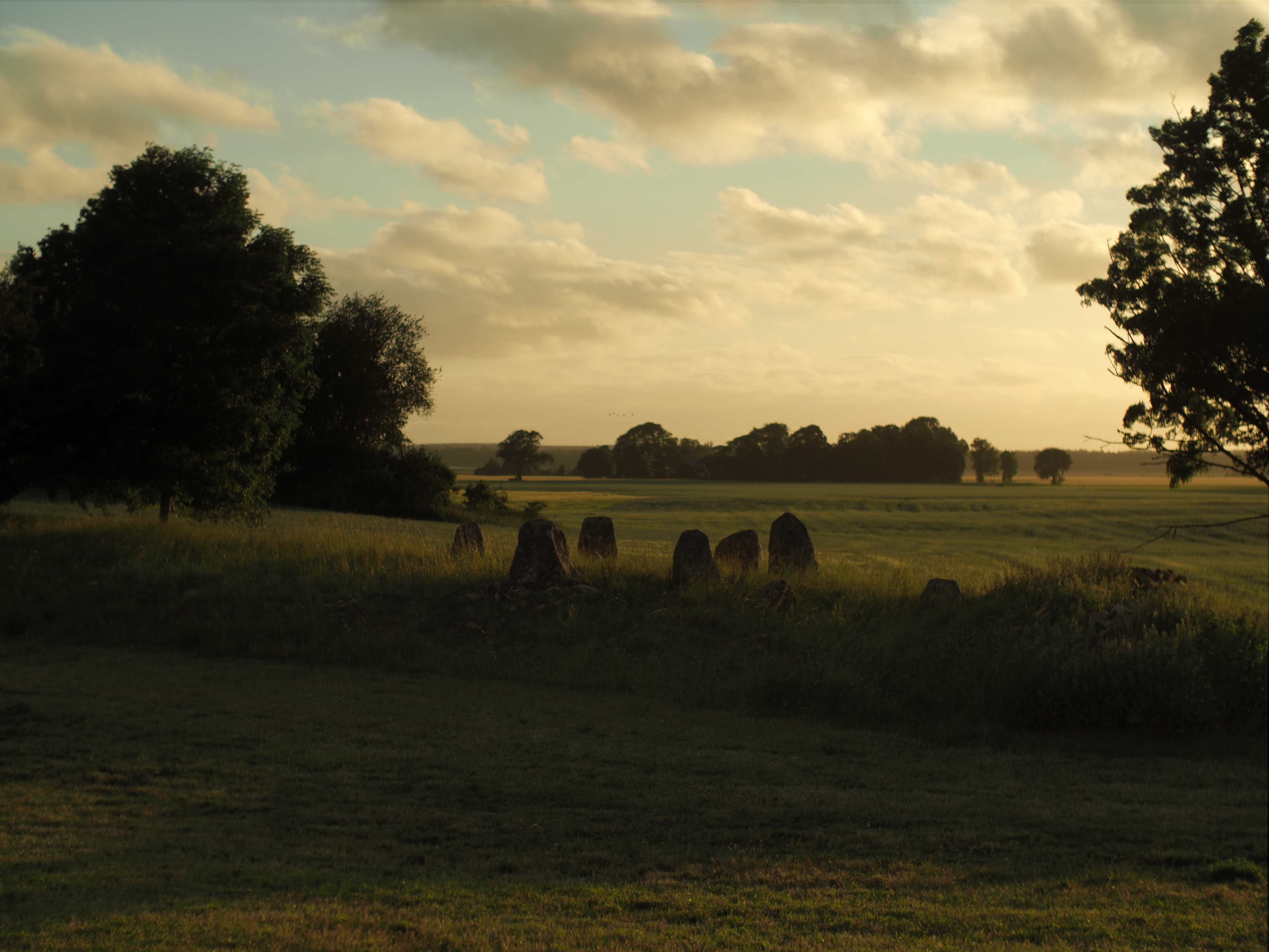 An Iron Age stone circle at Lilla Lycke, Skara municipality.